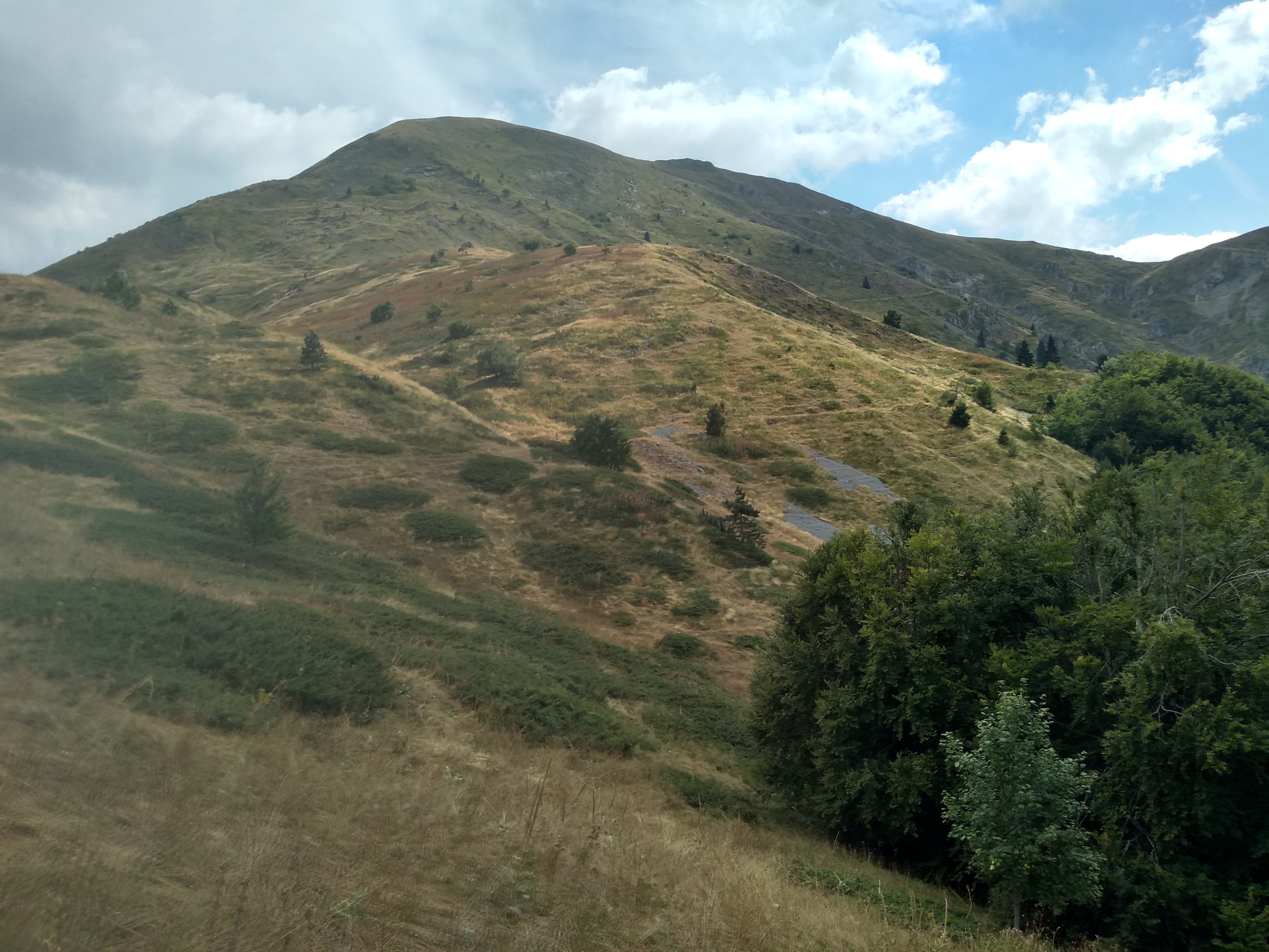 Dudica peak on Kozuf mountain, Macedonia